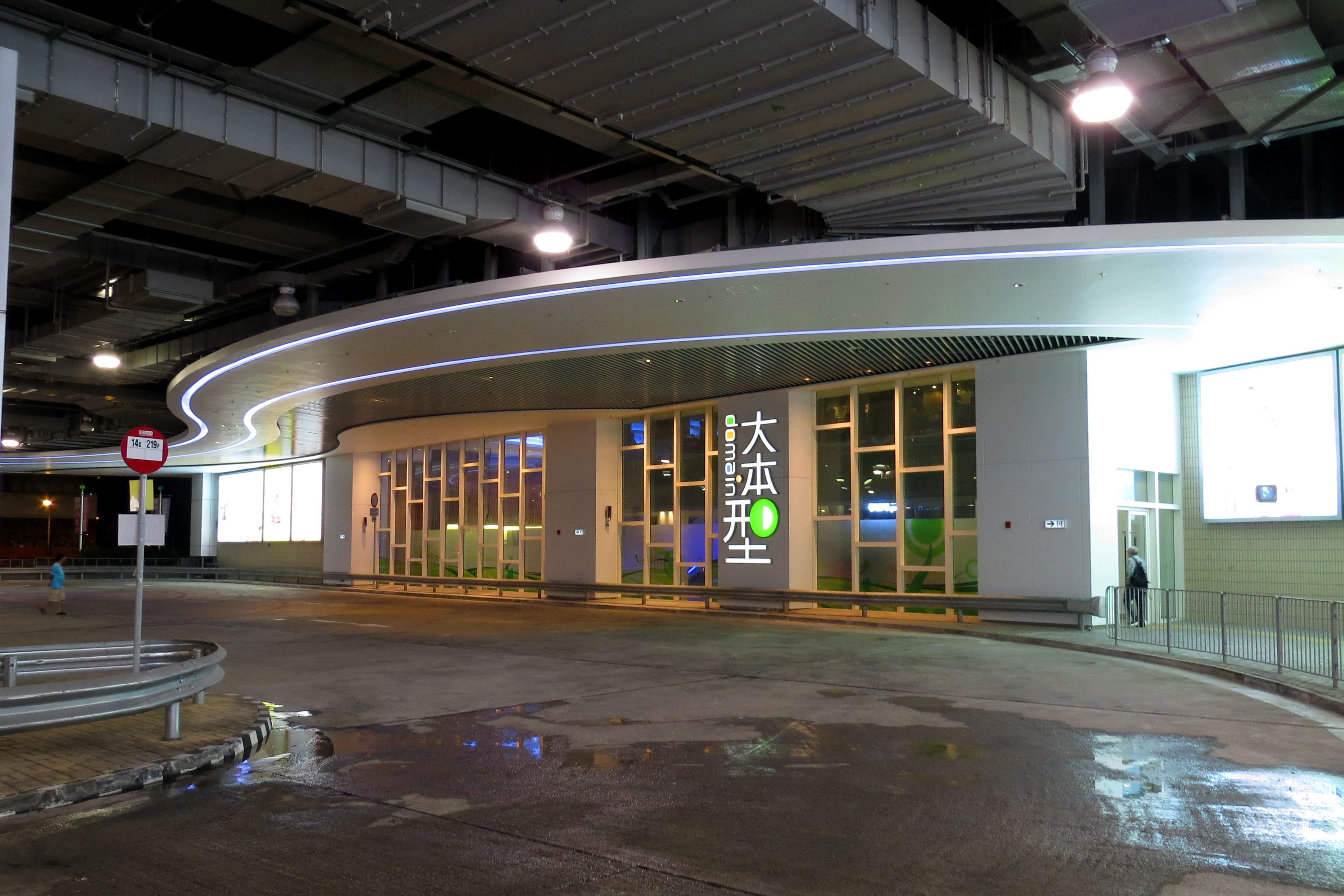 Yau Tong Public Transport Interchange at the MTR floor of the Domain, Yau Tong, Kowloon, Hong Kong.